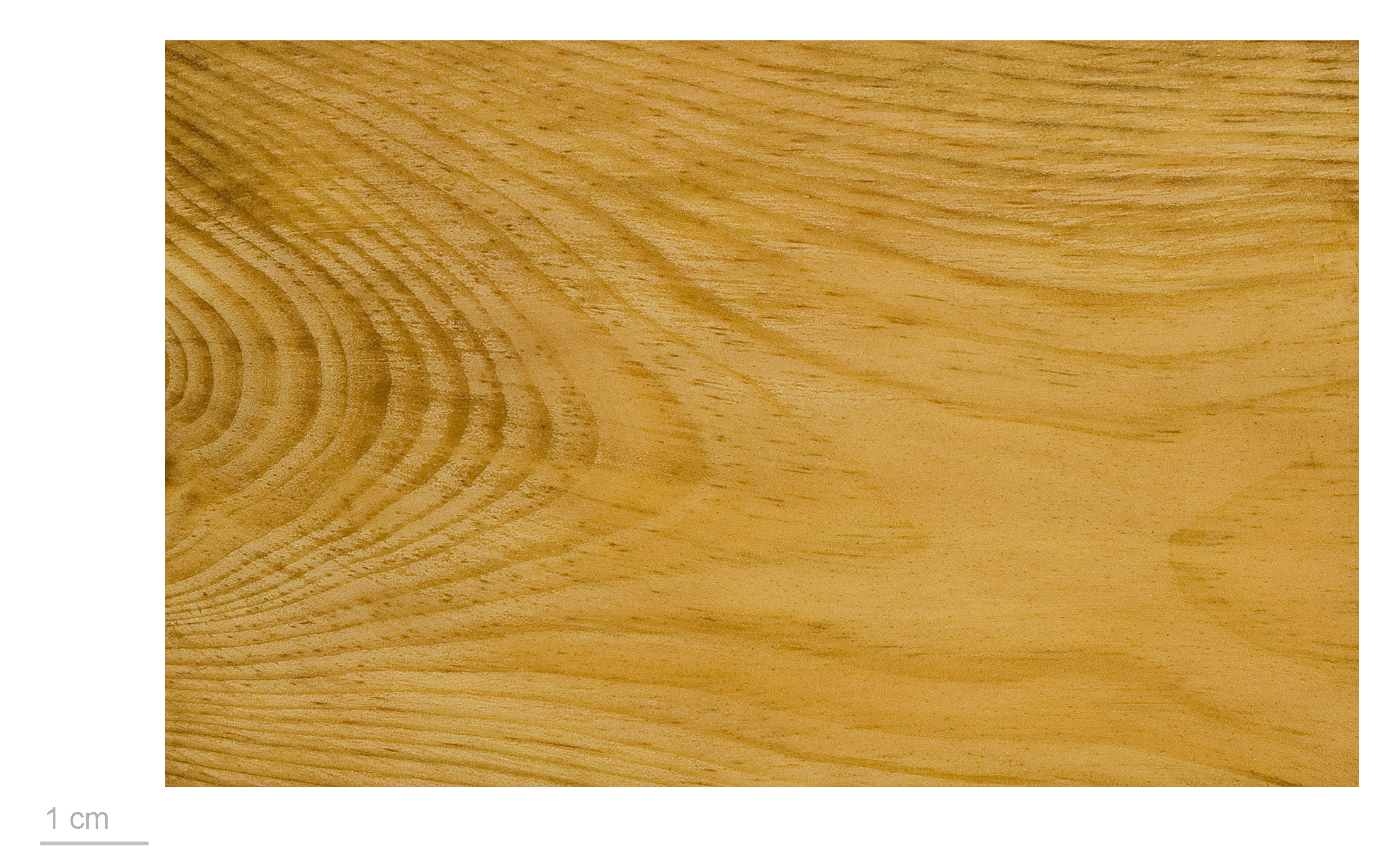 Mountain Pine , wood